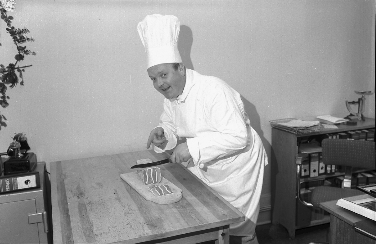 Willie Hoel was a popular Norwegian actor and comedian.